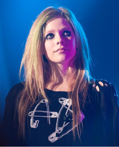 Avril Lavigne performing live on May 2, 2010. Photo was respectively and originally taken by Yun Jie Dai via Flickr.